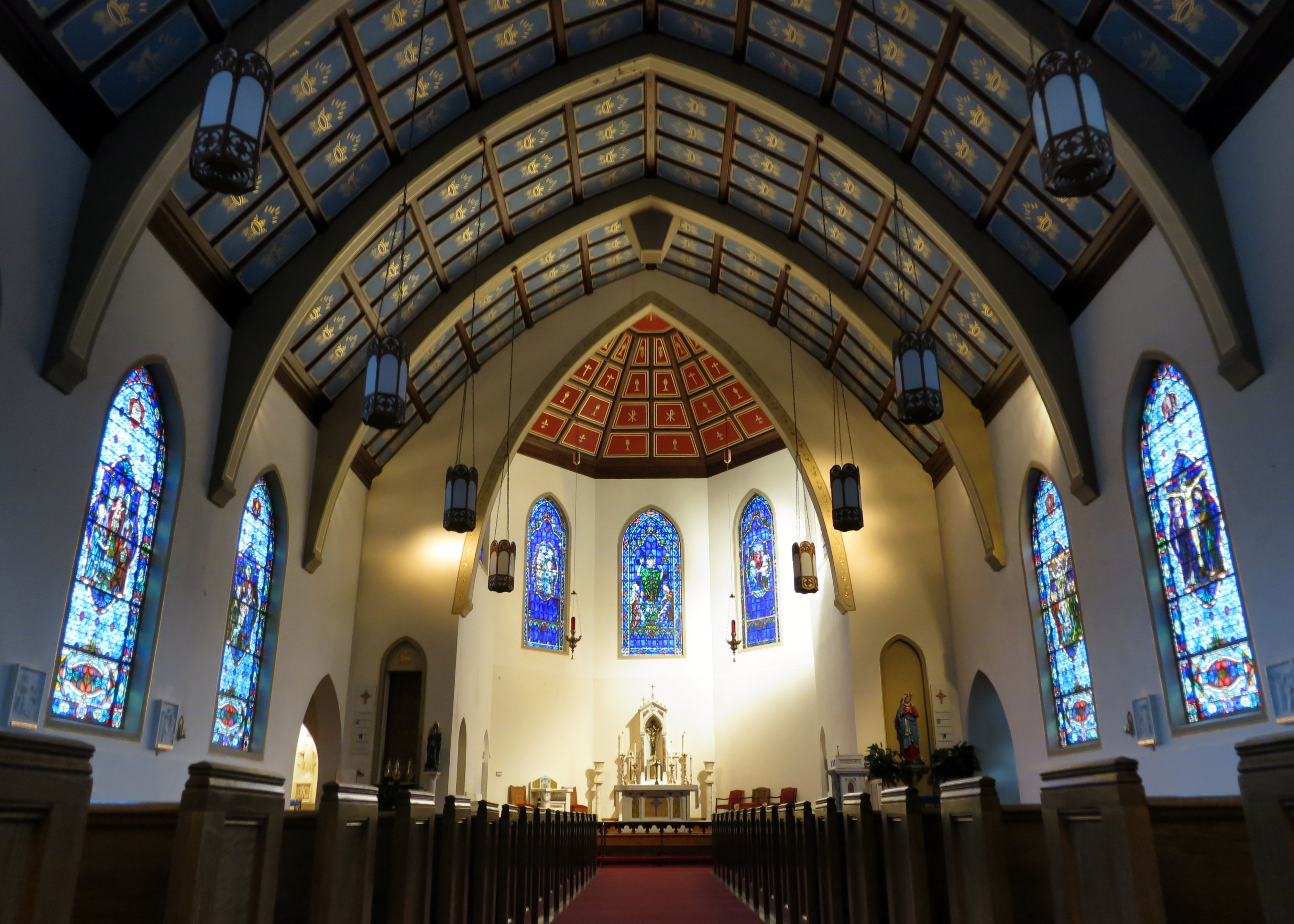 Cathedral Church of Saint Patrick (Charlotte, North Carolina) - nave